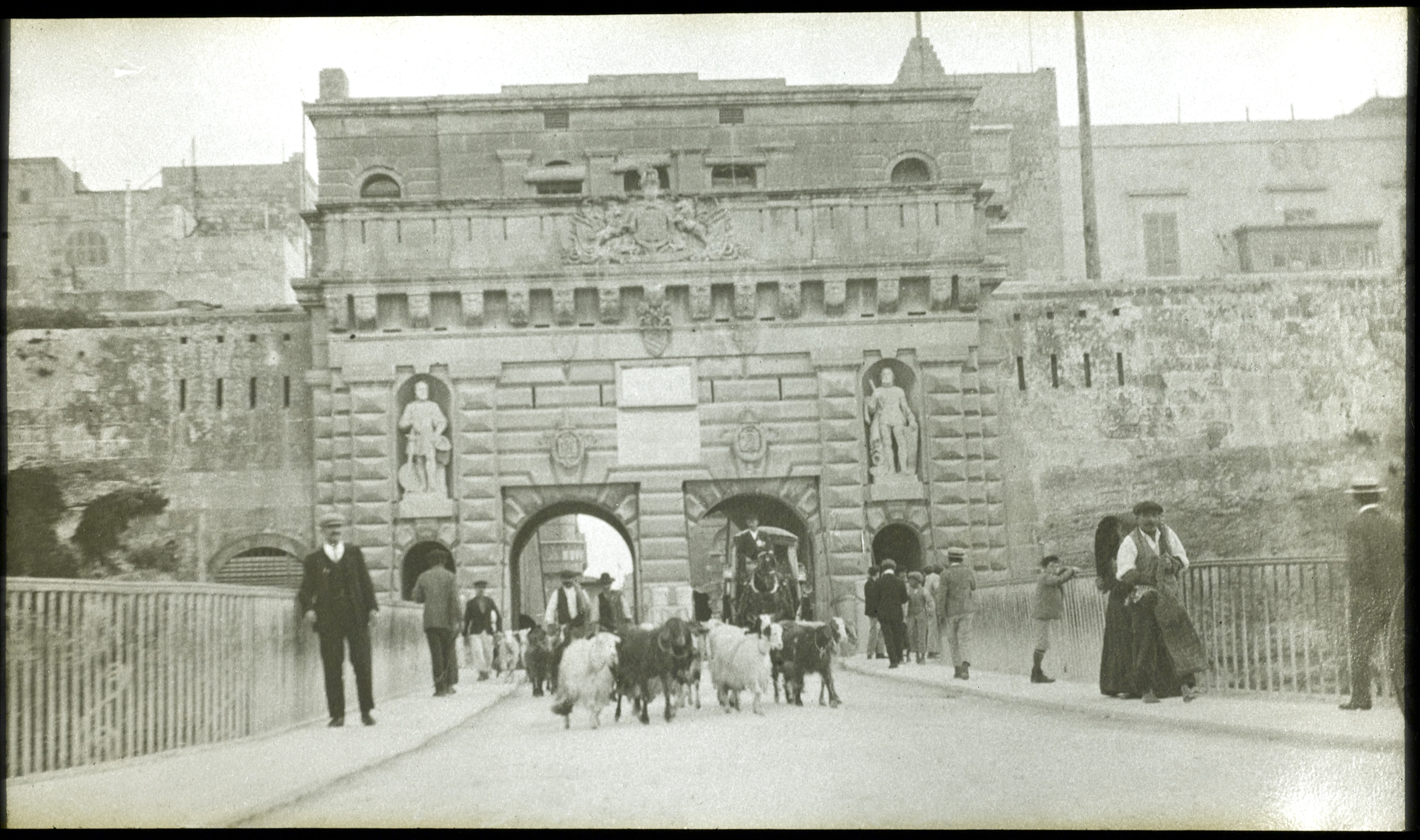 A lantern slide of goats and Port Reale, Malta. Photograph possibly taken by Sir David Bruce. Archives & Manuscripts